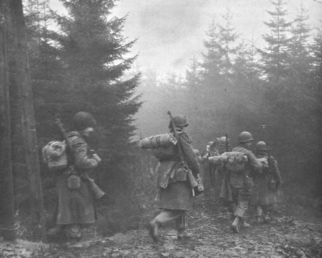 Troops of the 325th Glider Infantry Moving Through The Fog To A New Position